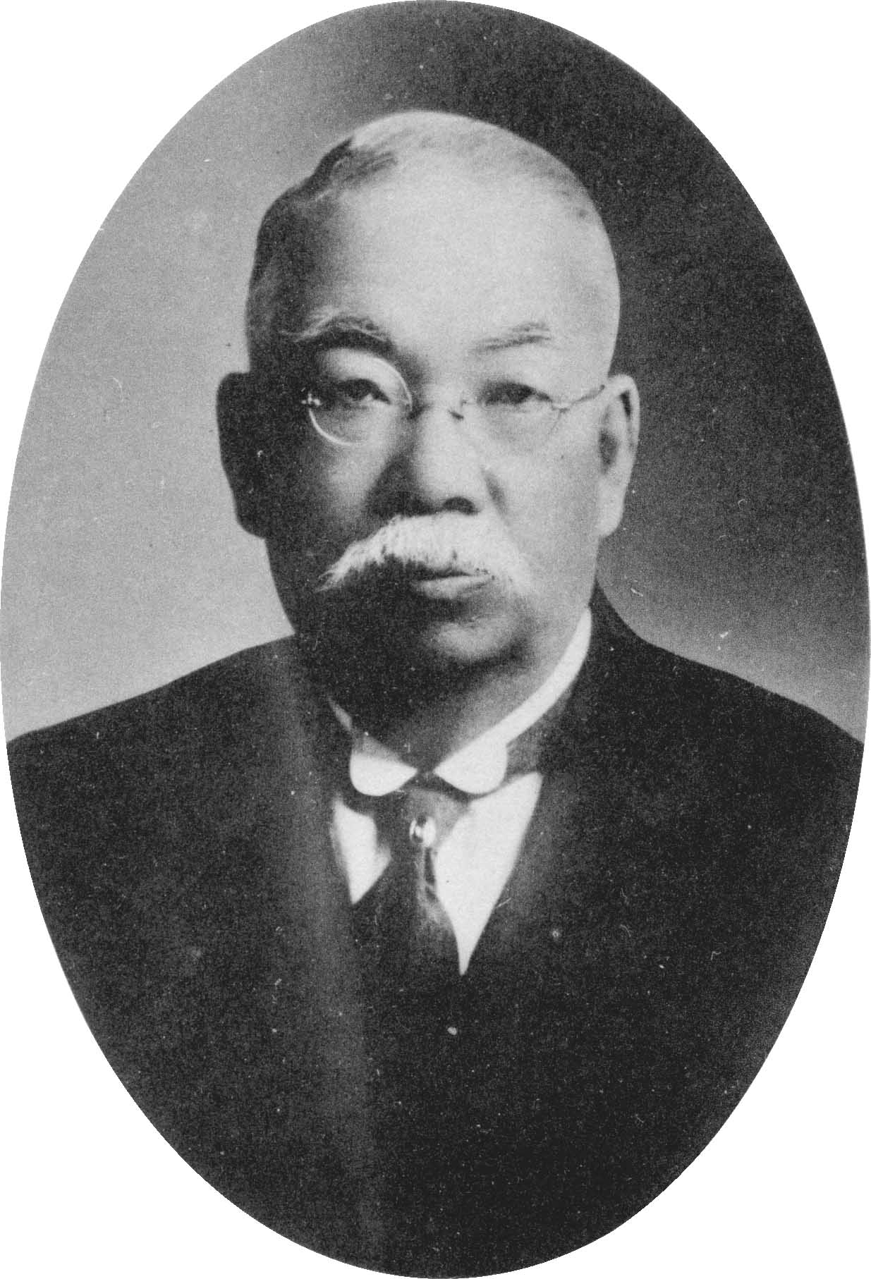 Yasushi Tsukamoto, Dean of the Faculty of Engineering at Tokyo Imperial University.